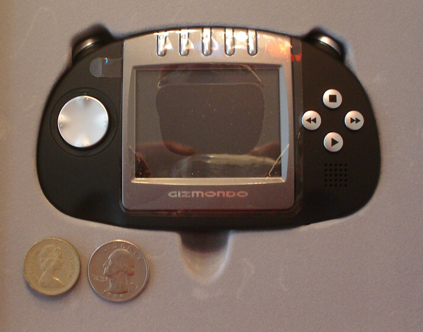 The Gizmondo handheld video game unit. United States and British coins included for scale. This photo was taken by Wikipedian MadDreamChant.